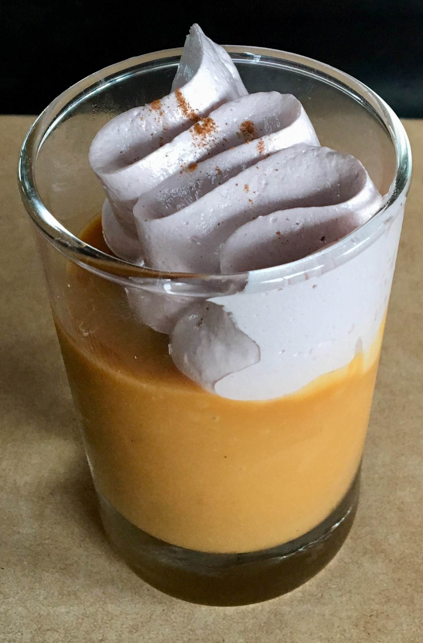 "Suspiro limeño" is a traditional dessert of Peruvian cuisine having its origin in the Peruvian capital (Lima). It is also known as "Supiro de limeña" or even as "Suspiro a la limeña".